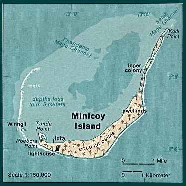 Map of Minicoy Island, Lakshadweep, India